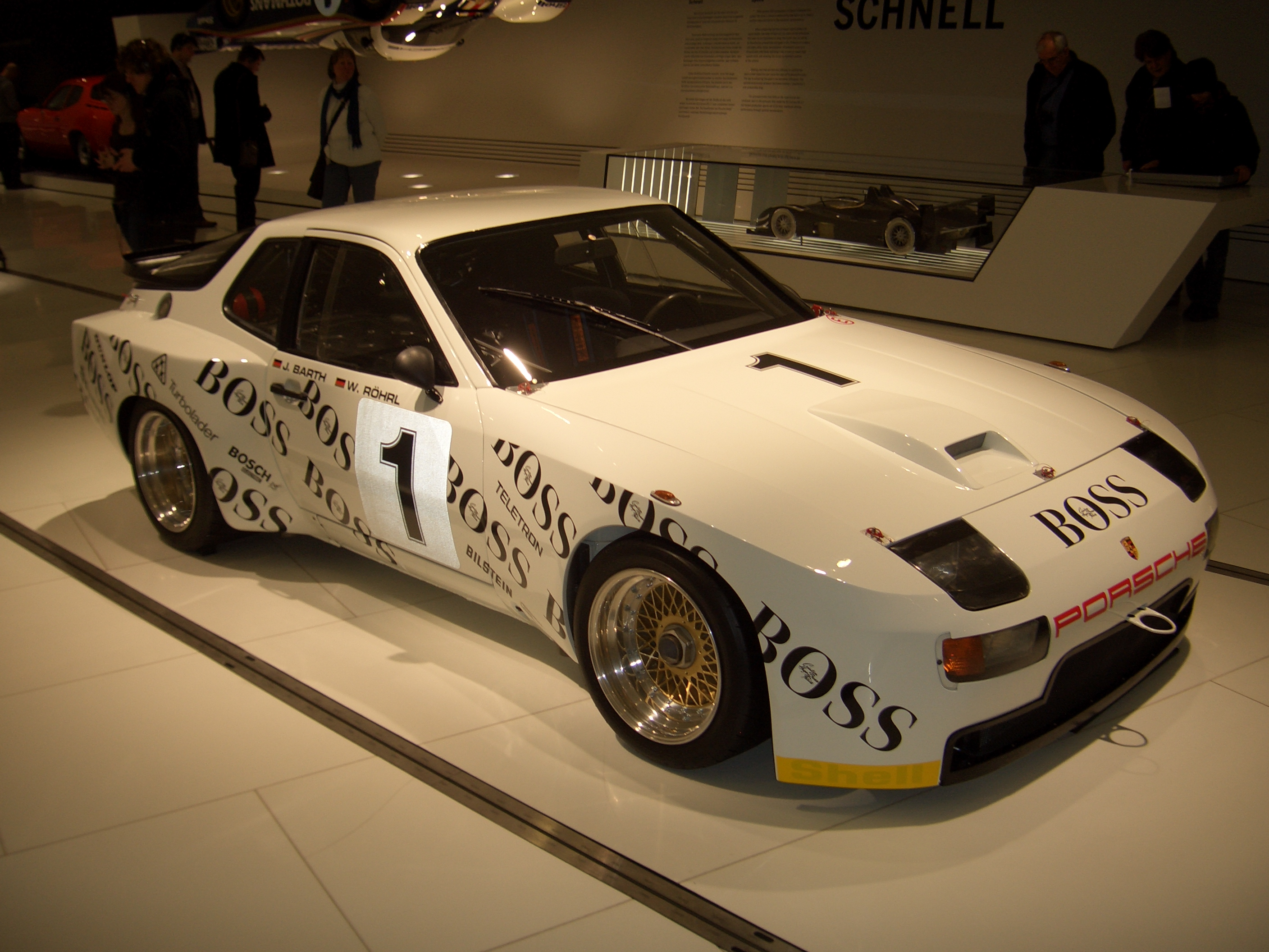 A 1981 Porsche 924 GTP, also known as Porsche 944 GTP or Porsche 944 Le Mans[1] - seen at PORSCHE MUSEUM in Stuttgart, Germany